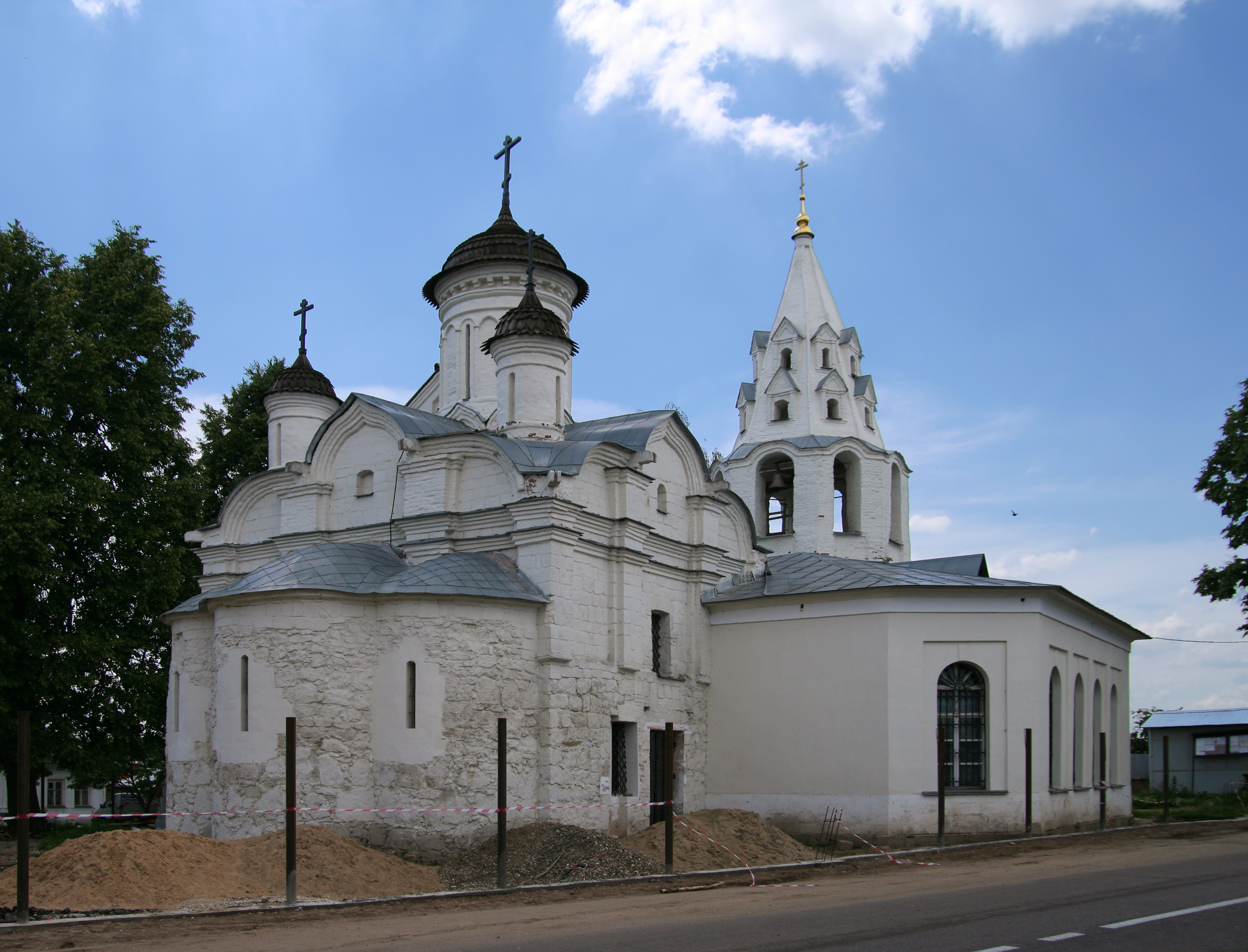 The Church of St. John the Baptist in Gorodishche, Kolomna